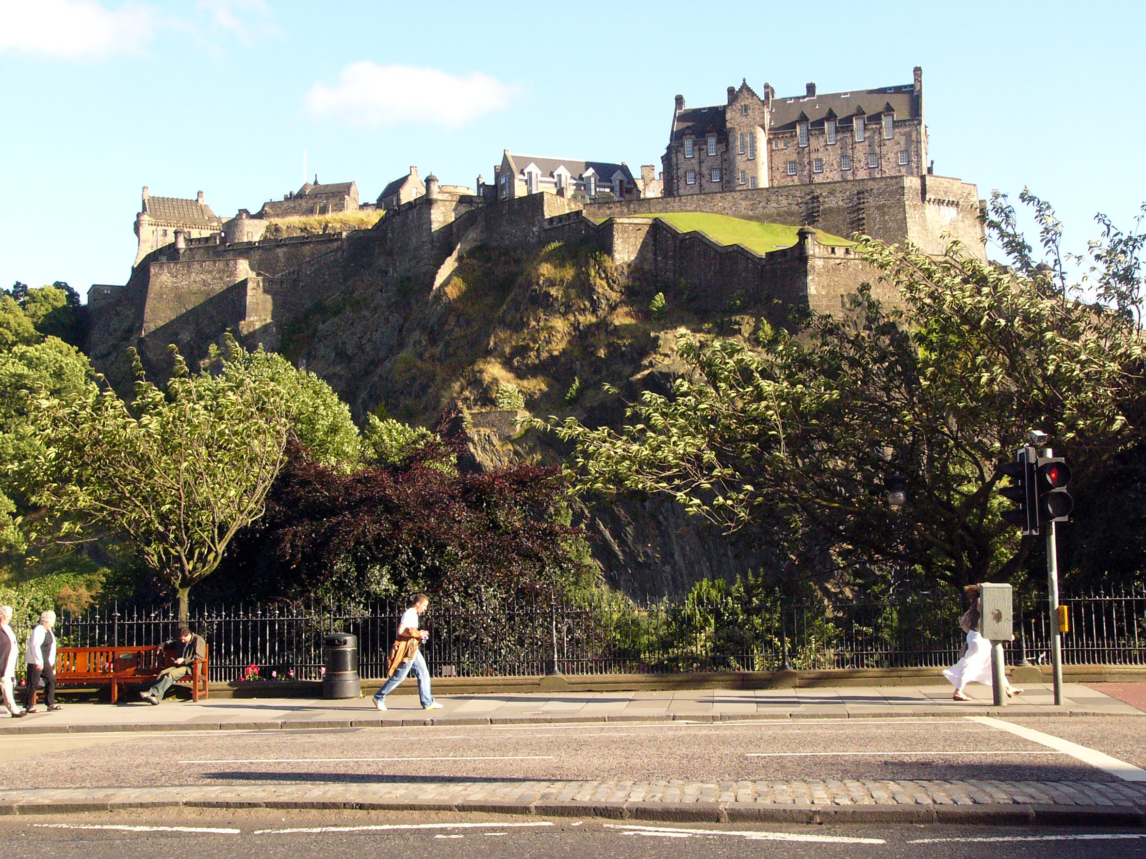 Edinburgh-Castle